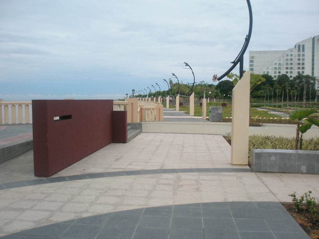 Bintulu Prominade